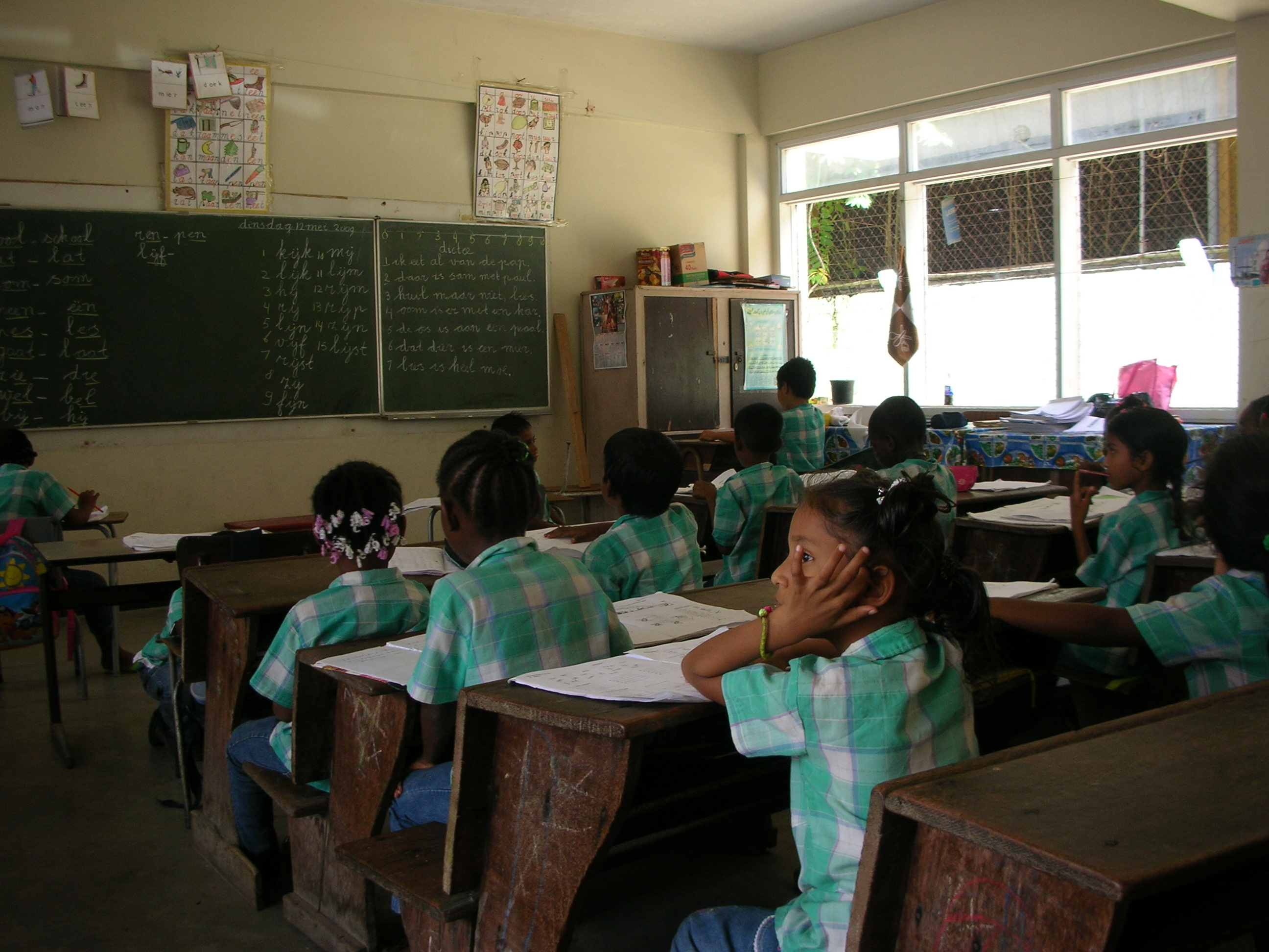 Schooluniform